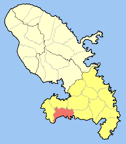 Location of Le Diamant within Martinique